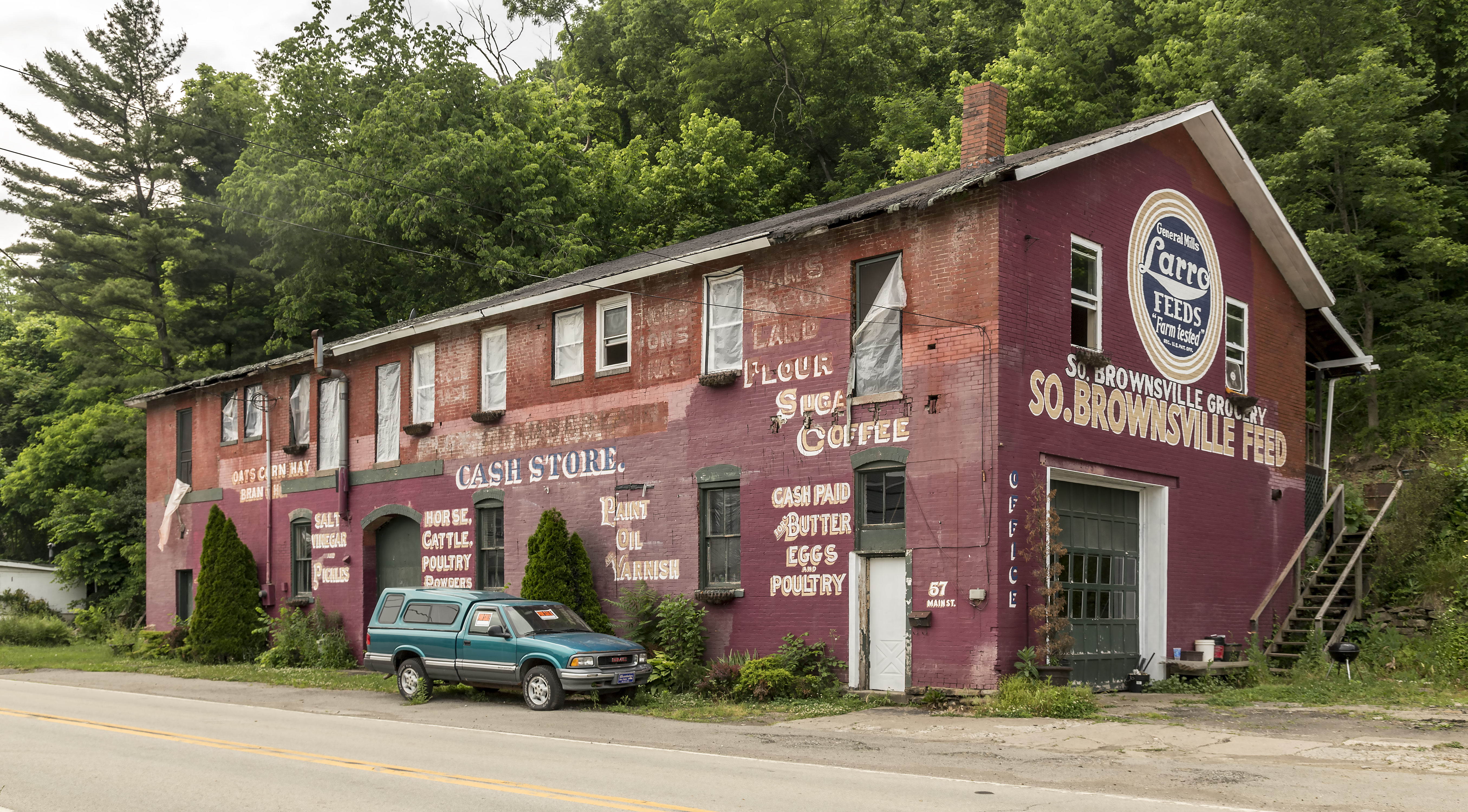 South Brownsville Store, West Brownsville, Pennsylvania, USA